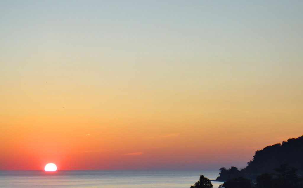 Dagomys, Sochi - sunset